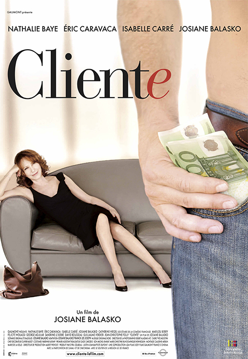 Poster of the movie Cliente (Q2979030)